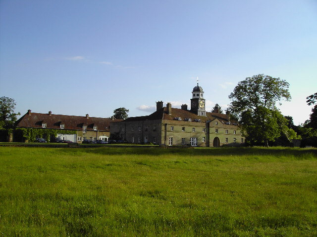 Cupola stable block, Wandlebury Ring Wandlebury Iron Age hillfort occupies a prominent position below the crest on the south facing slope of Gog Magog Hill. This early 18th century stable block (now converted to housing) is all that remains of the Mansion House built within the fort. Inside the block is the grave of 'The Godolphin Arabian'. The Cambridge Preservation Society acquired the Wandlebury Estate in 1954.